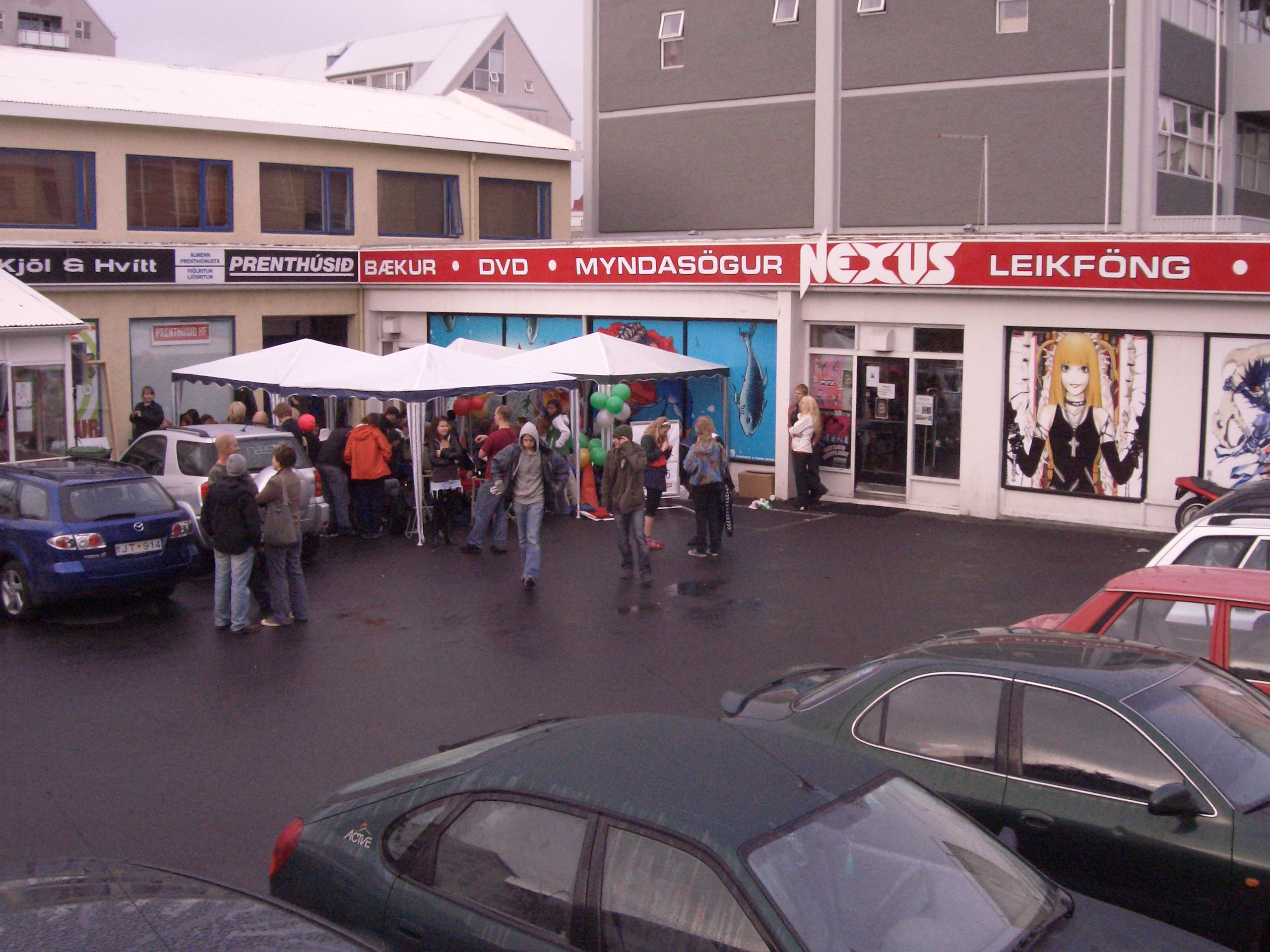 A line of people waiting for the last Harry Potter book in front of the store Nexus in Iceland.